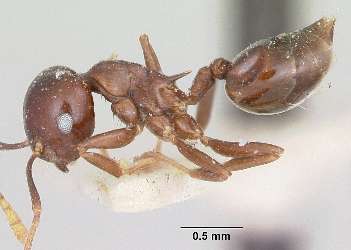 Profile view of ant Crematogaster hova specimen casent0101804.